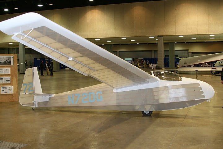 Cherokee II Sailplane on display at SSA Convention 2010, Little Rock, AR